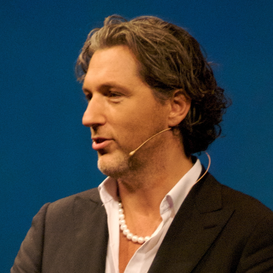 Marcel Wanders